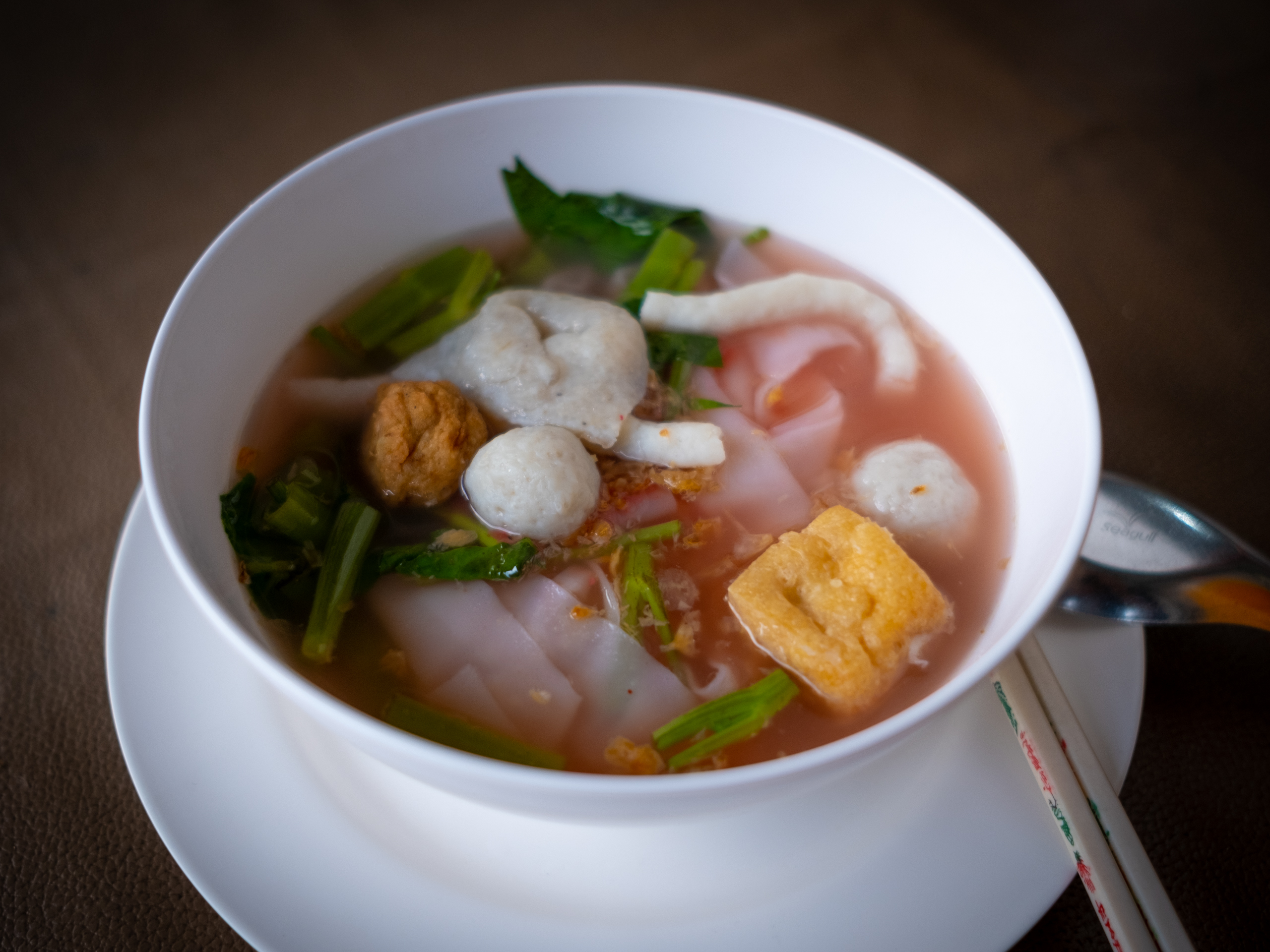 Yen tafo (Thai script: เย็นตาโฟ) is the Thai version of the Chinese dish Yong tau foo. Yen tafo is a clear broth with, usually, very silky wide rice noodles, fish balls, sliced fried tofu, squid, and phak bung (also known as "morning glory" or "water spinach"). The pink colour comes from the special sauce made from preserved red bean curd and/or tomato ketchup. The dish is mildly sweet, salty and sour. This particular version was from a Yaowarat-style noodle stall at a food court in Chiang Mai.